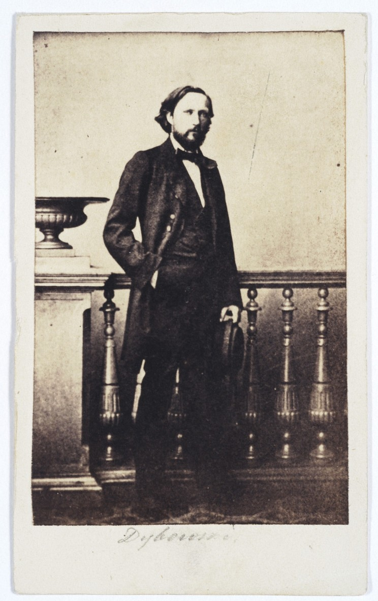 Benedykt Dybowski